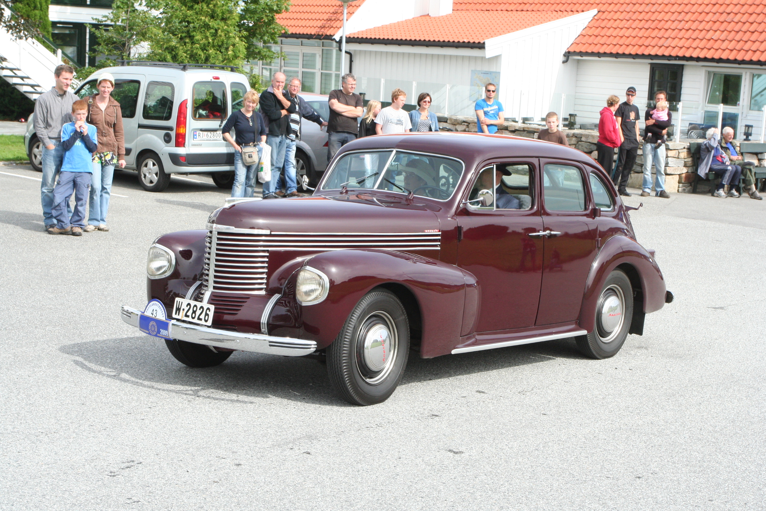 Captured at a Veteran-Car meeting on August 1, 2009 in Utstein, Norway. Arild was the owner at the time.